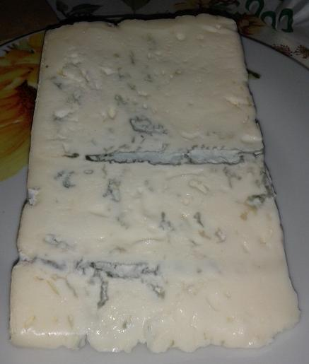 Gorgonzola cheese from Italy